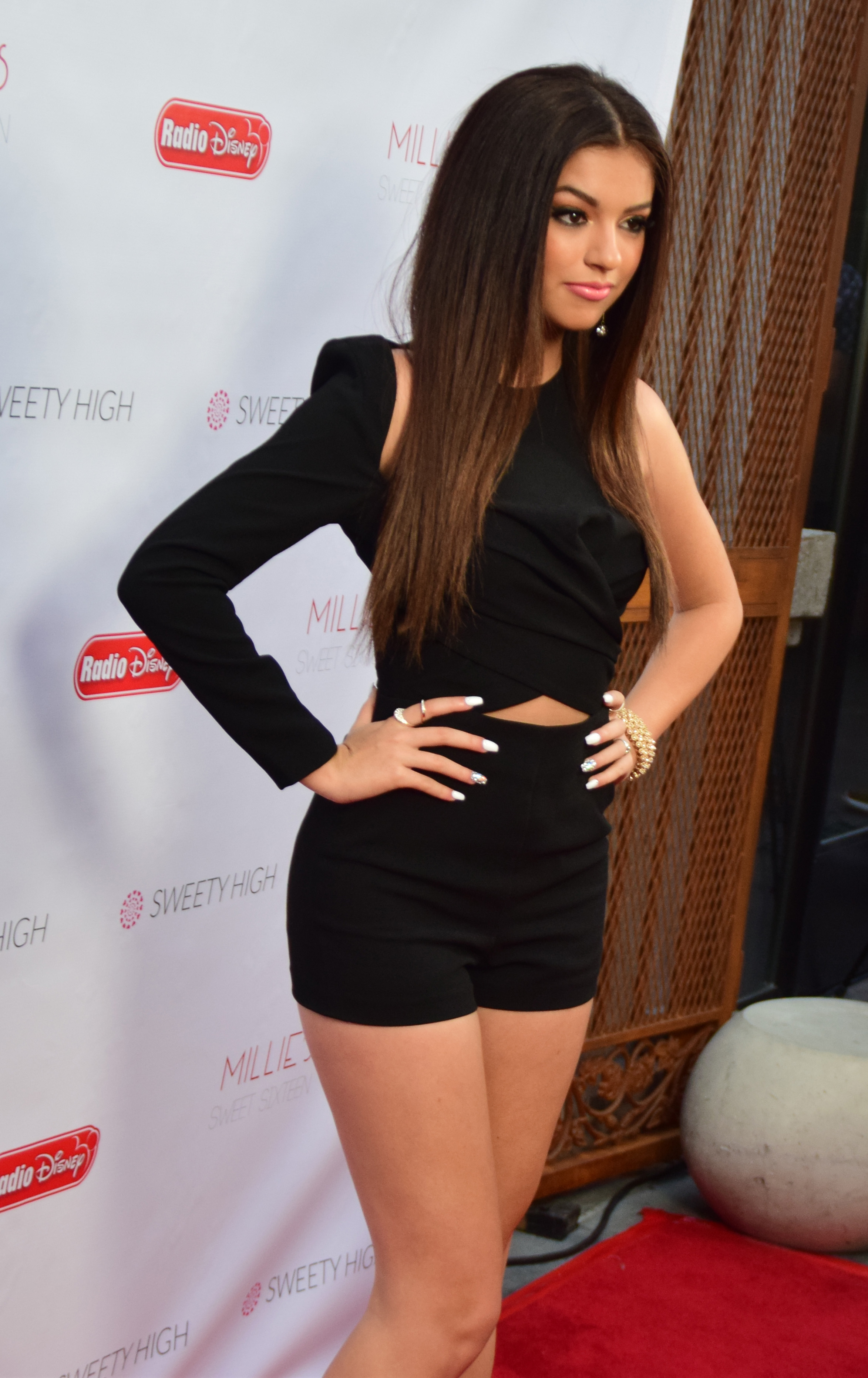 Mingle Media TV and our Red Carpet Report team with host, Denise Salcedo, were invited to come out to Sweet Suspense member Millie Thrasher's Sweet 16 Party with Radio Disney and her celebrity friends at the Hotel Sofitel in Hollywood. Get the Story from the Red Carpet Report Team, follow us on Twitter and Facebook at: About Sweet Suspense X Factor fan favorite girl group, Sweet Suspense, is an all-female pop power trio with Simon Cowell as their mentor off the hit series. Since 2013 the girls have been going full throttle proving that they are here to stay and are truly ready to be superstars. Since their time on The X Factor (they were in the top 12!) the girls have worked with some of the best producers in the business and have been busy recording new music and establishing themselves as positive role models for their fans. Fresh off premiering the music video for their single “Here We Go Again,” and being selected as one of the iHeart Radio Macy’s “Rising Stars,” Sweet Suspense recently released a music video for the female-empowering version of Max Schneider’s song “Gibberish.” Follow Millie on Twitter For more of Mingle Media TV’s Red Carpet Report coverage, please visit our website and follow us on Twitter and Facebook here: Follow our host, Denise Salcedo on Twitter at